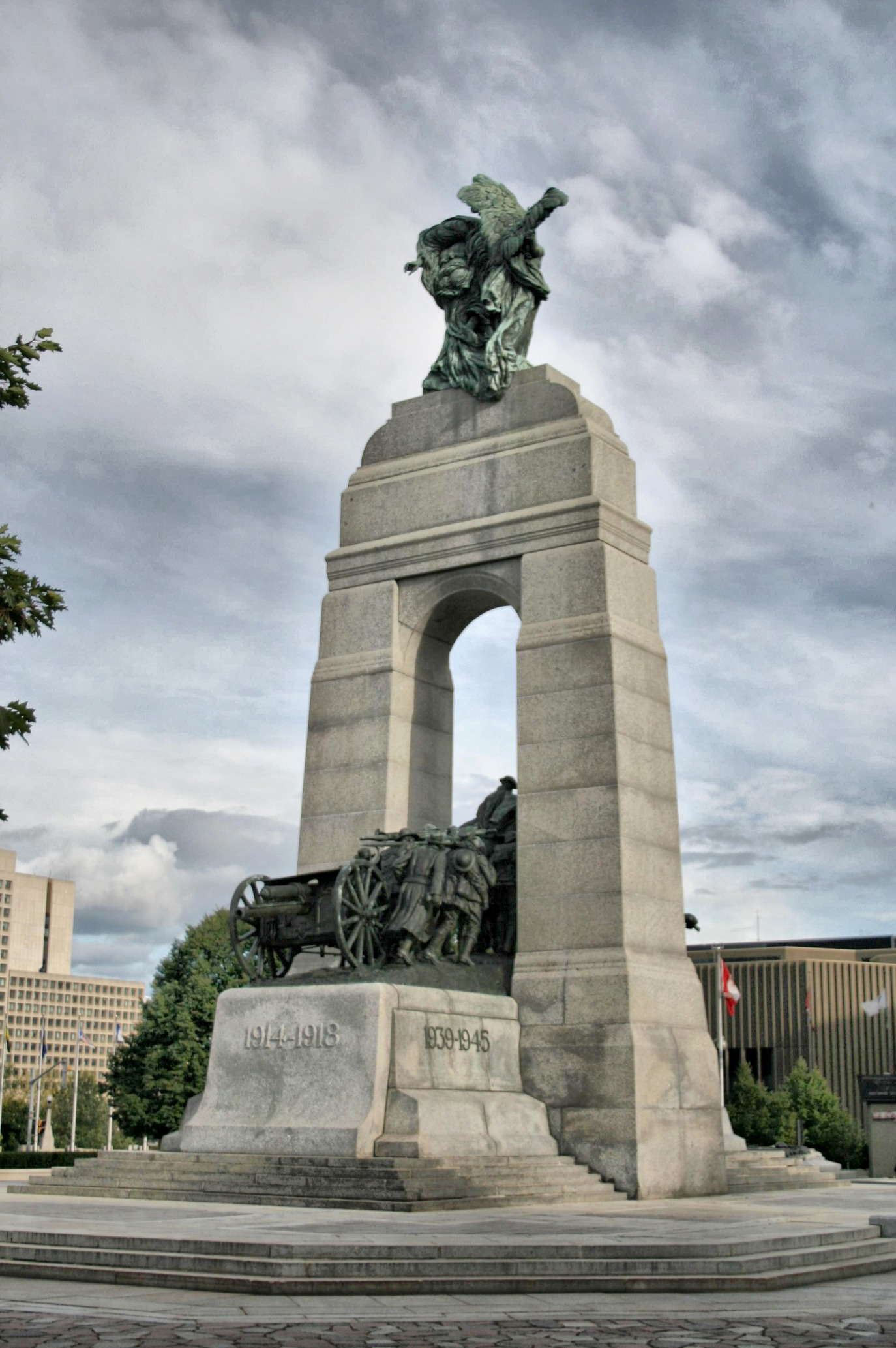 War monument (Ottawa)